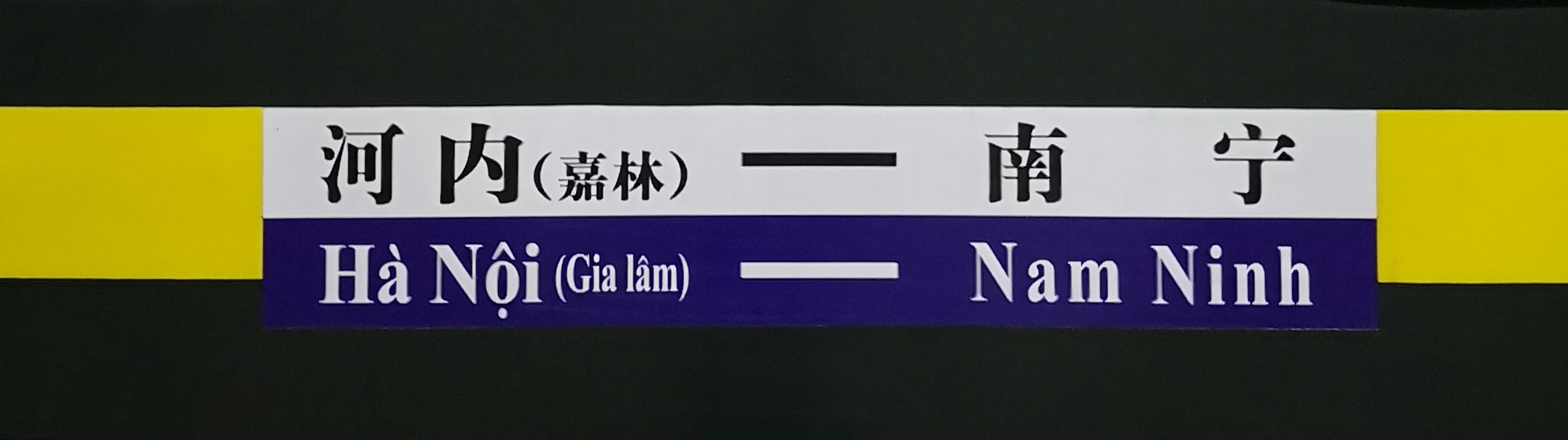 Destination plate on China-Vietnam international train T8701/MR2/MR1/T8702 from Nanning to Gia Lam, a version without a national emblem of China. Photographed at Gia Lam station on Mar 12, 2018.